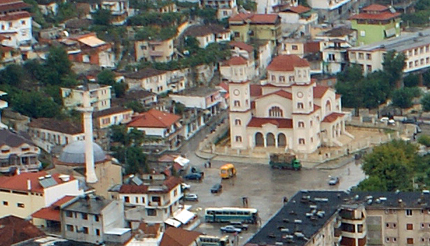 Lead Mosque and Orthodox Cathedral in Berat, Albania.